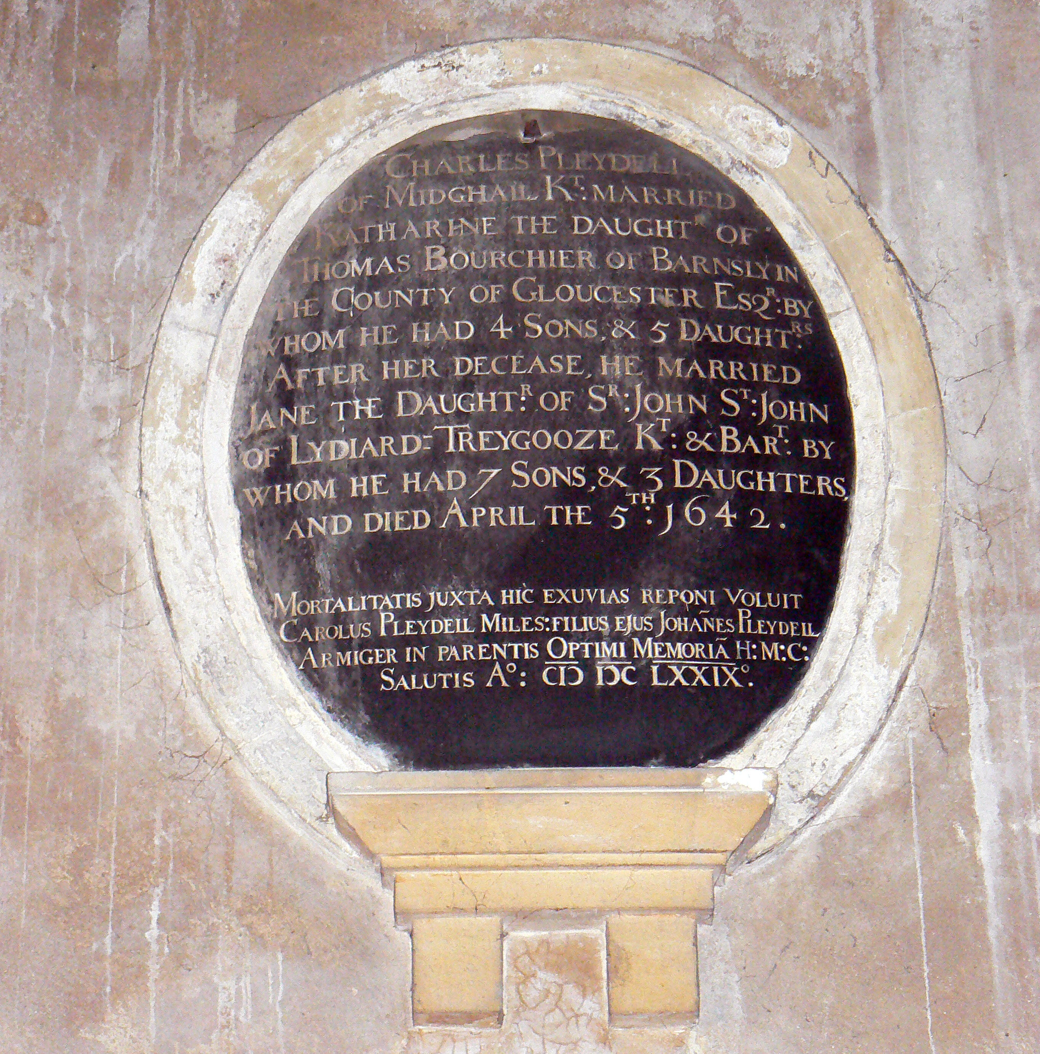 Wall-mounted monument in St Mary's parish church, Lydiard Tregoze, Wiltshire, to Charles Pleydell of Midghall. He was a 17th-century forebear by marriage of the 18th-century Ann Pleydell who is commemorated in the same church. Charles had a total of 19 offspring by two wives, the second of whom died in 1642. Charles himself died in 1679 but his age is not given.